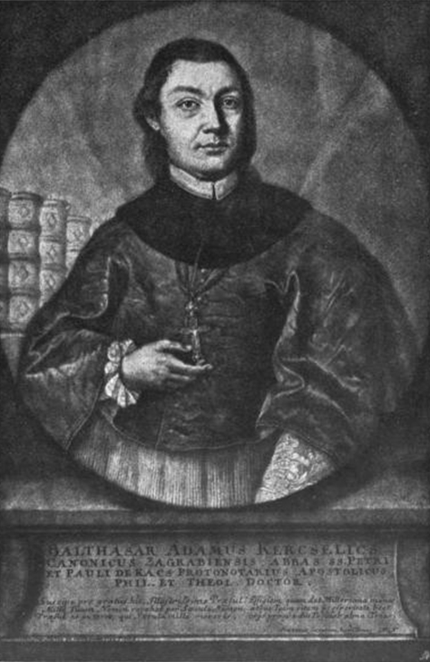 Balthazar Adam Krčelić (1715–1778), Croatian historian, theologian and jurist